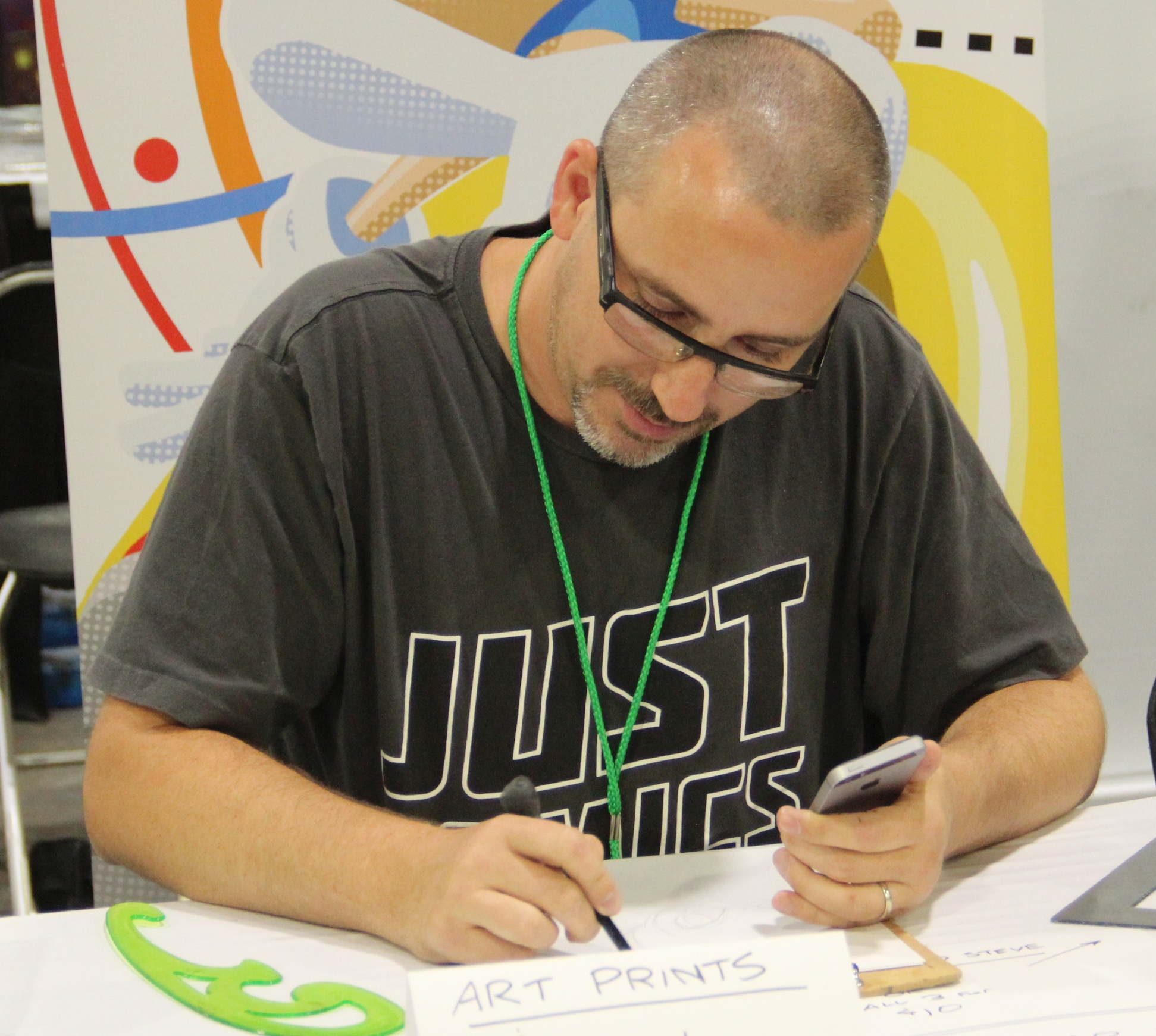 Tracy Yardley at the 2018 Atlanta Comic Con